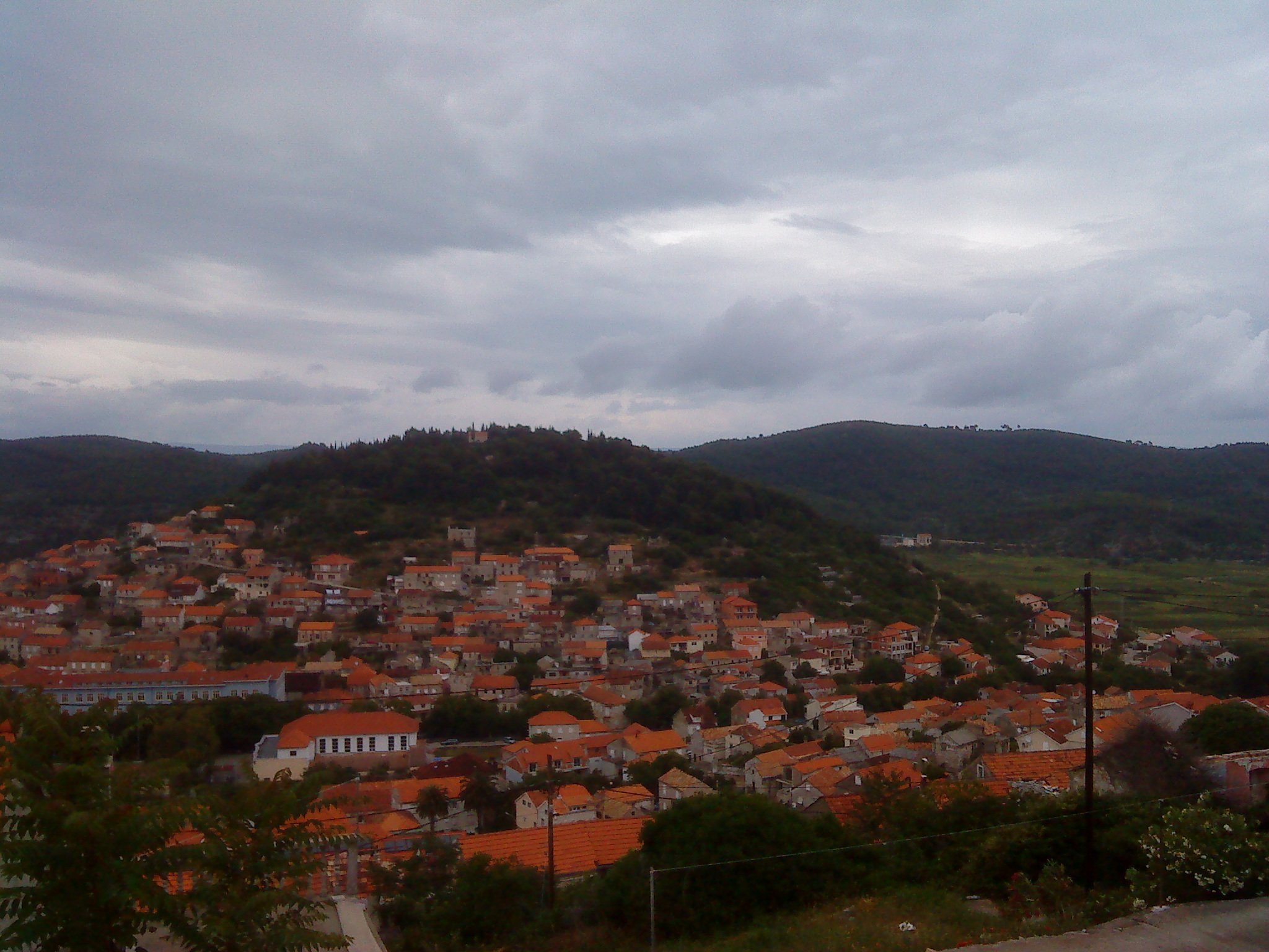 Panorama photo of Blato , Korčula